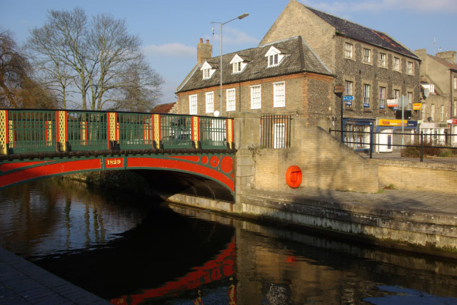 Town Bridge, Thetford Spanning the Little Ouse River just downstream from its confluence with the River Thet, this attractive bridge dated 1829 once carried the main thoroughfare into the town. Today, traffic schemes have ensured that it carries very little road traffic.